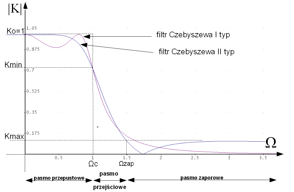 Chebyshev filter type I and II – chart example – amplitude vs frequency.